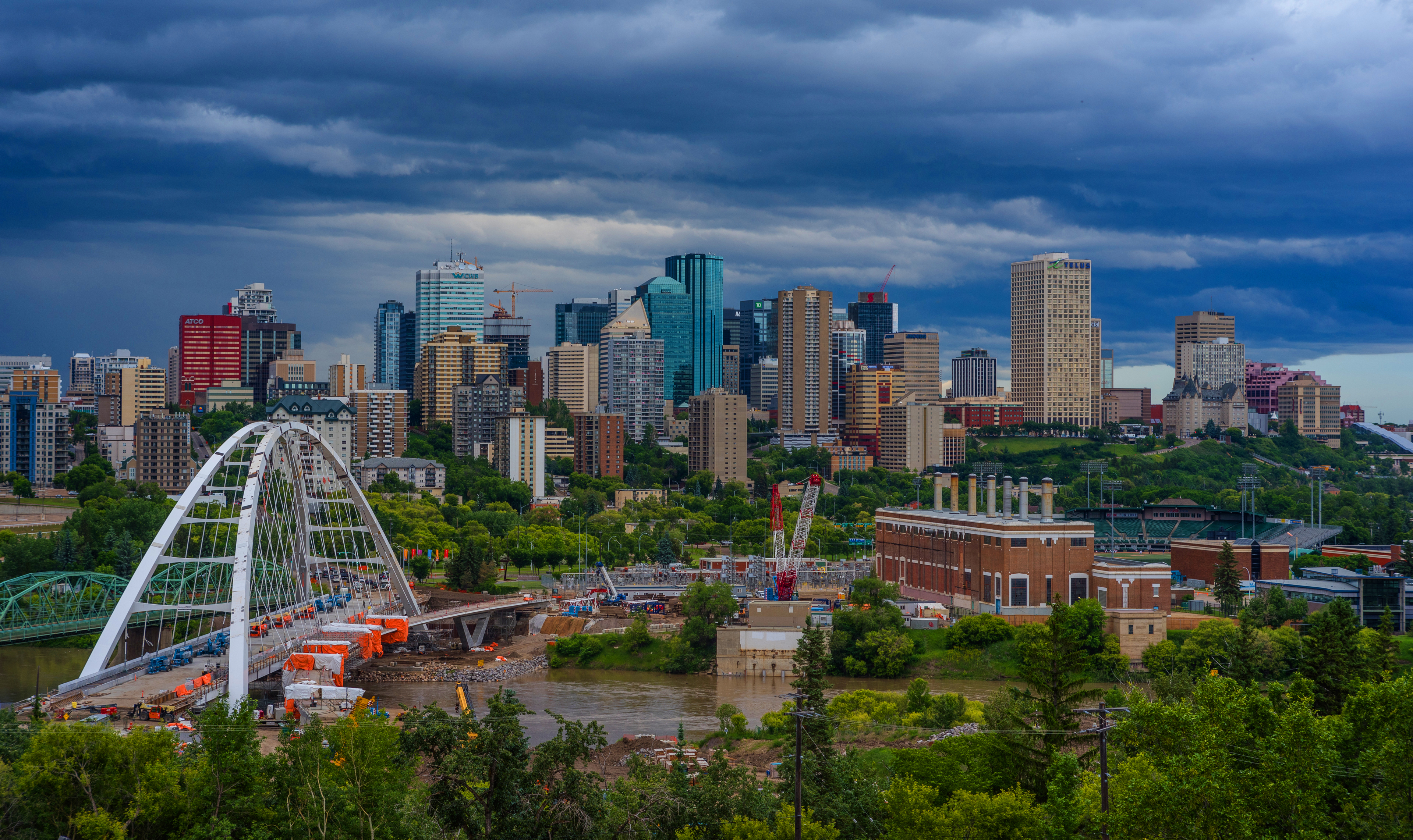 View of Edmonton Financial Centre from the south riverbank view over the Walterdale Bridge